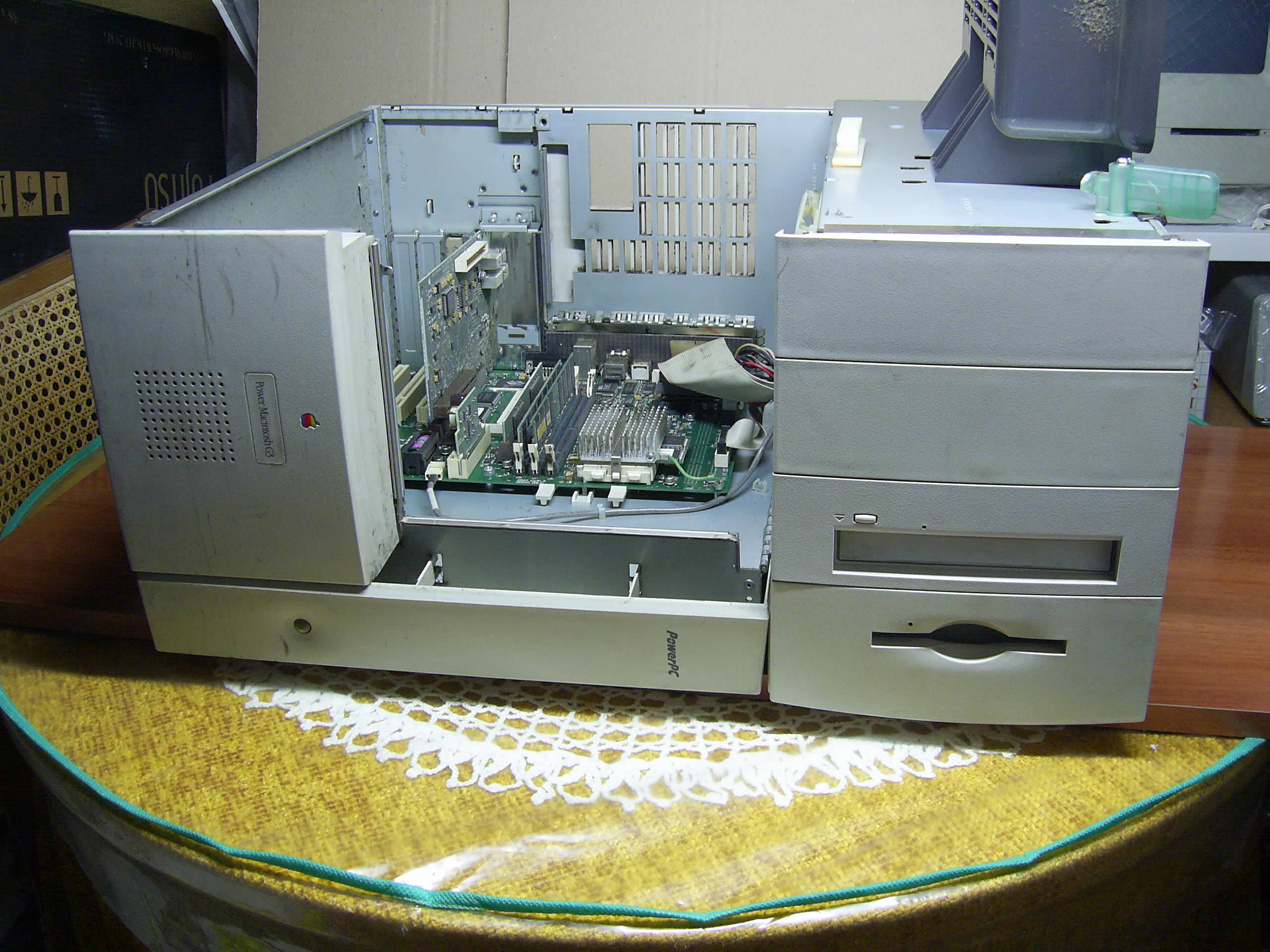 Power Macintosh G3 minitower (Beige) open